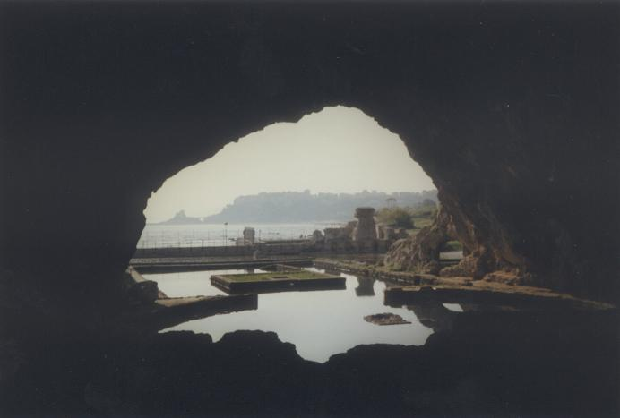 Grotto of Tiberius